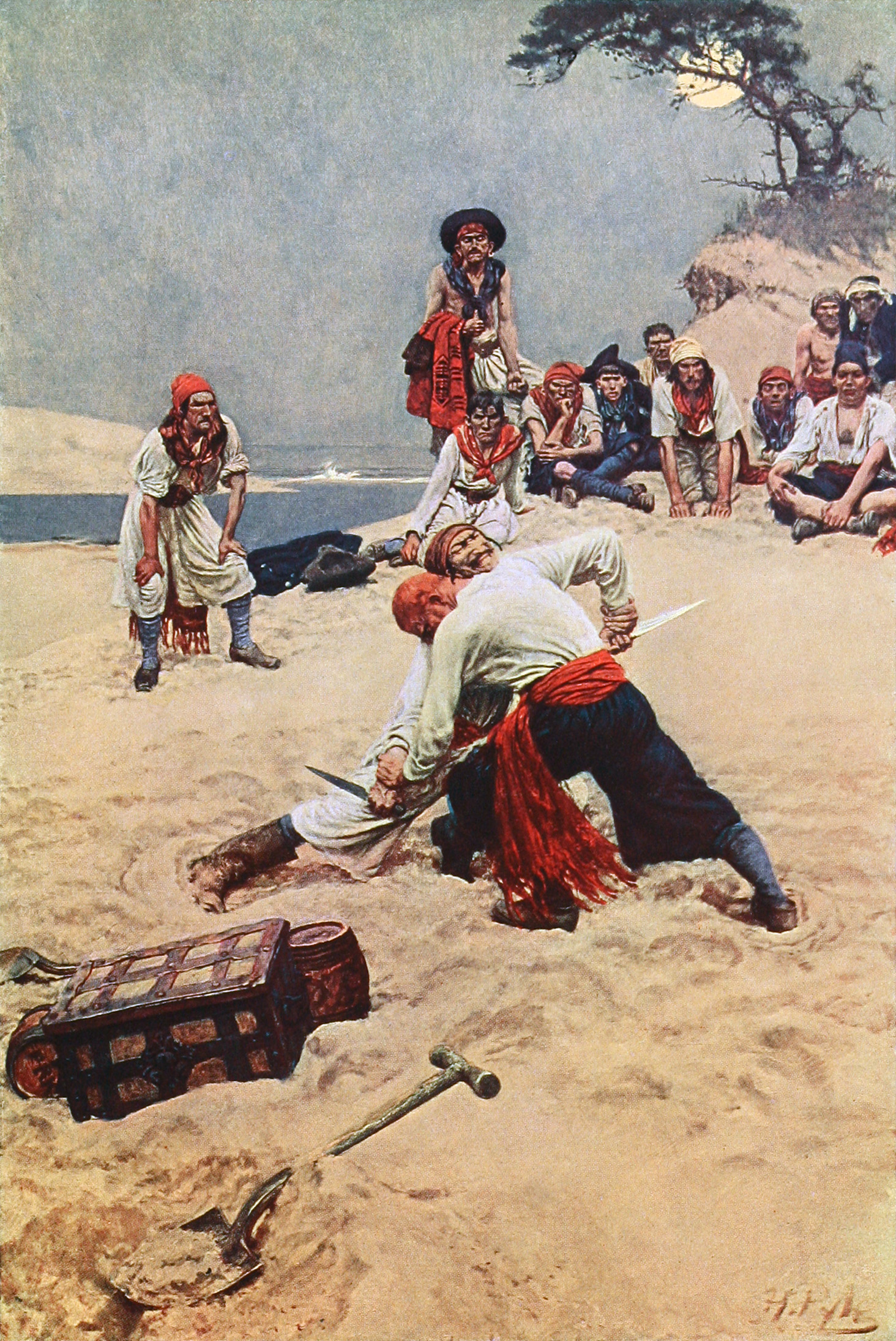 illustration of pirates fighting to be the captain.